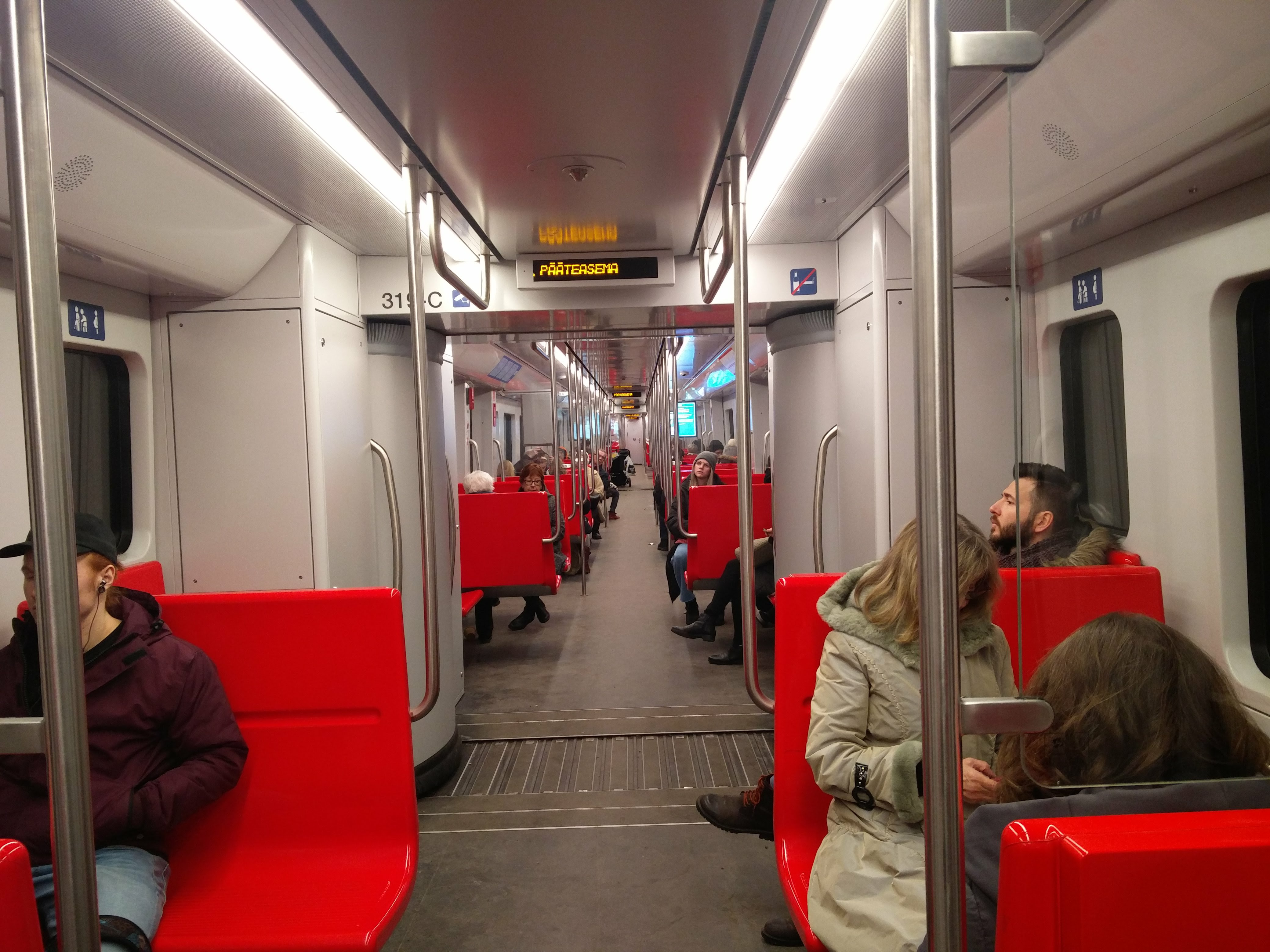 An M300 train arriving in Matinkylä